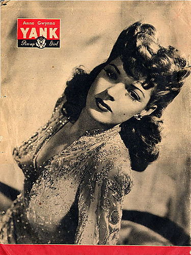 Pin-up photo of Anne Gwynne for the Jun. 11, 1944 issue of Yank, the Army Weekly, a weekly U.S. Army magazine fully staffed by enlisted men.